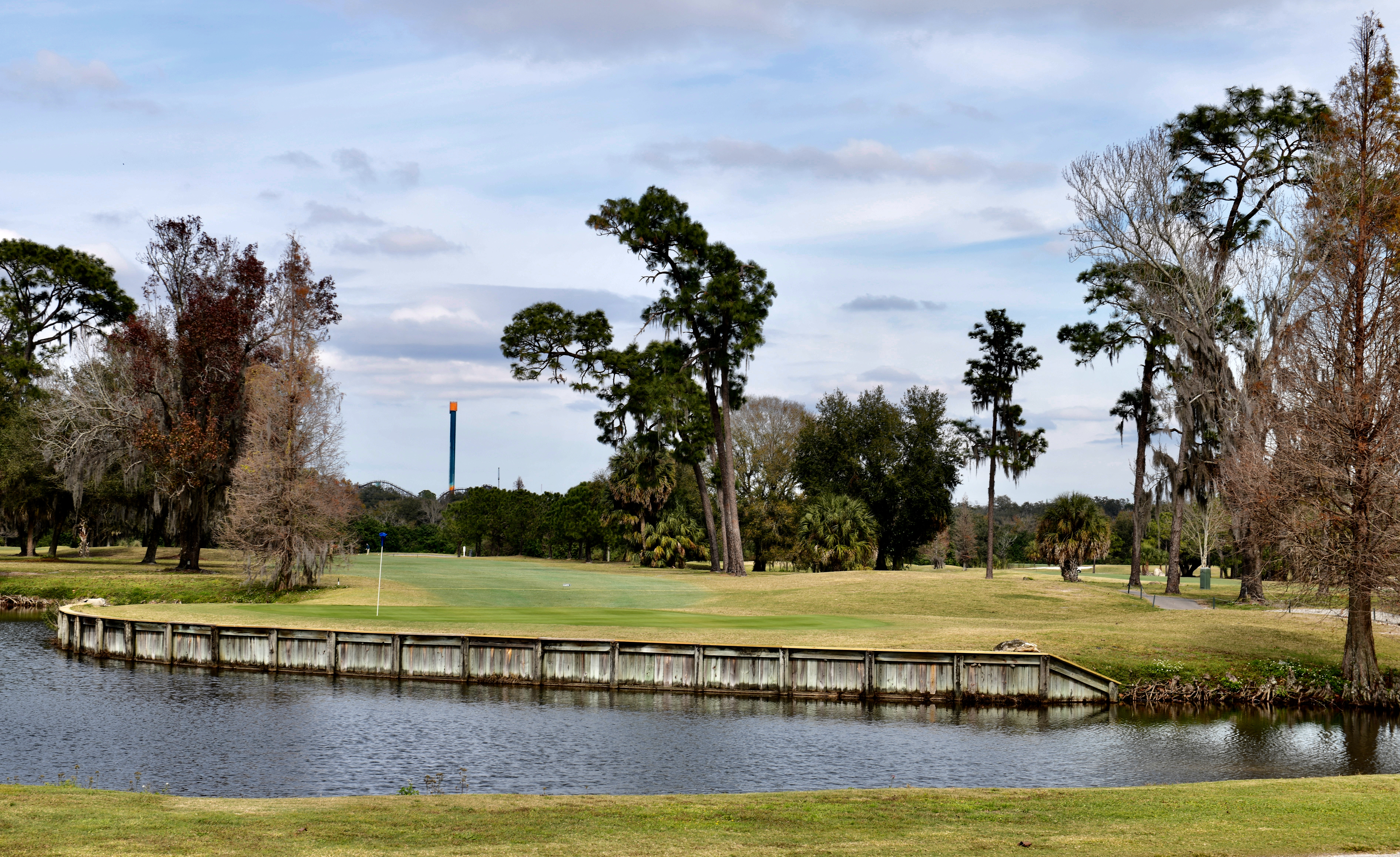 Original Rogers Park Golf Course Site